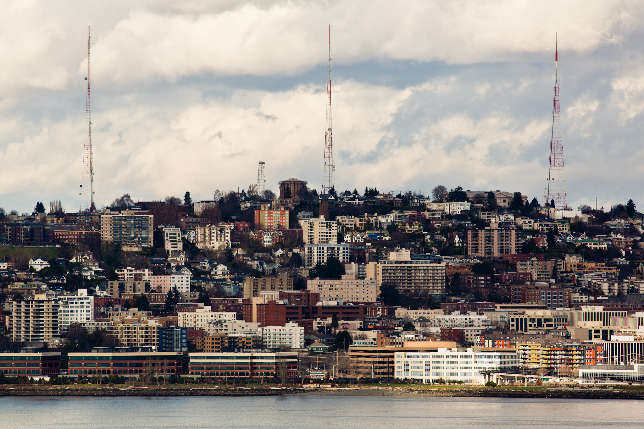 Queen Anne Hill, Seattle as seen from Hamilton Viewpoint